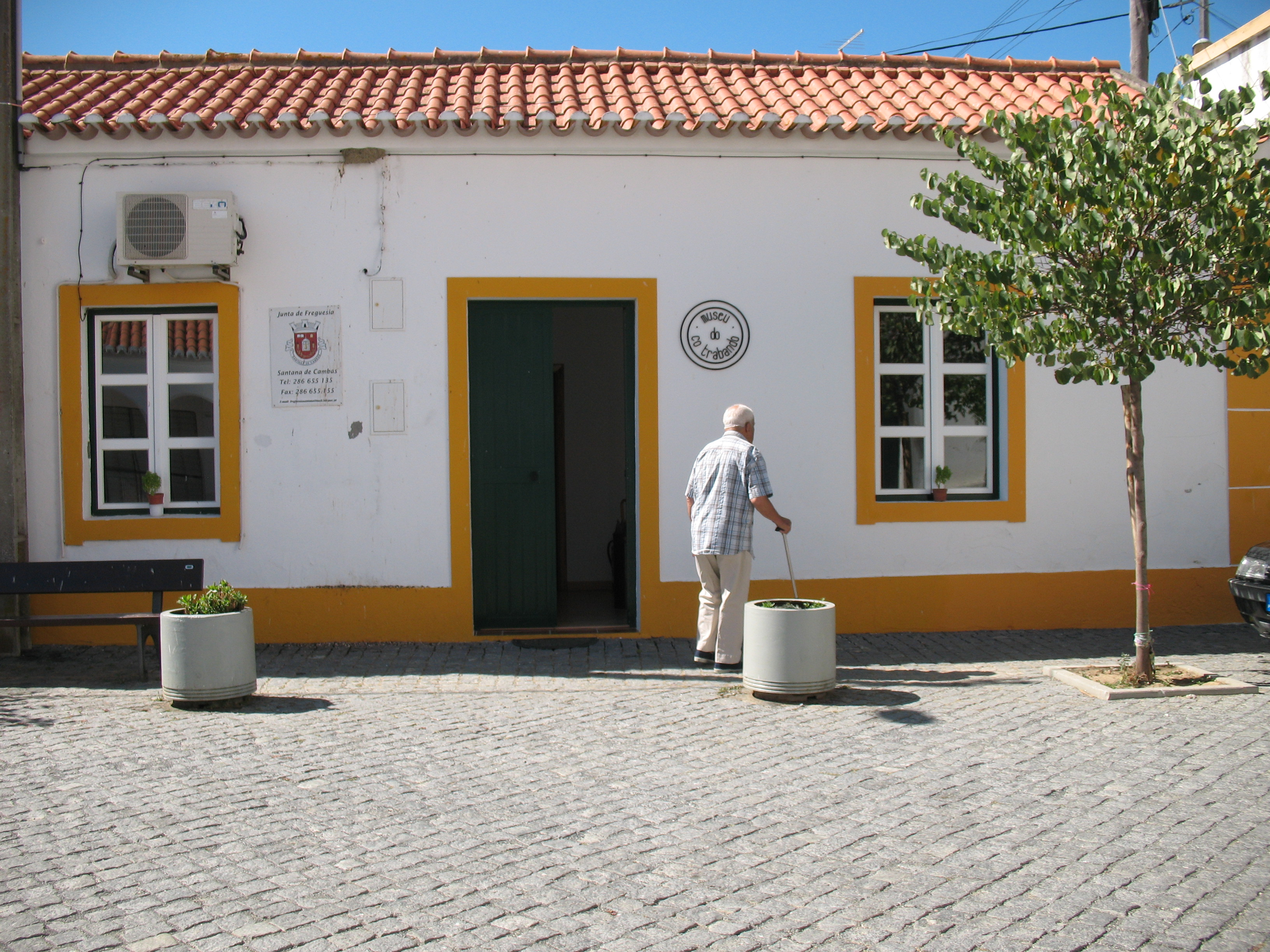 Museu do Contrabando in the portuguese village of Santana de Cambas